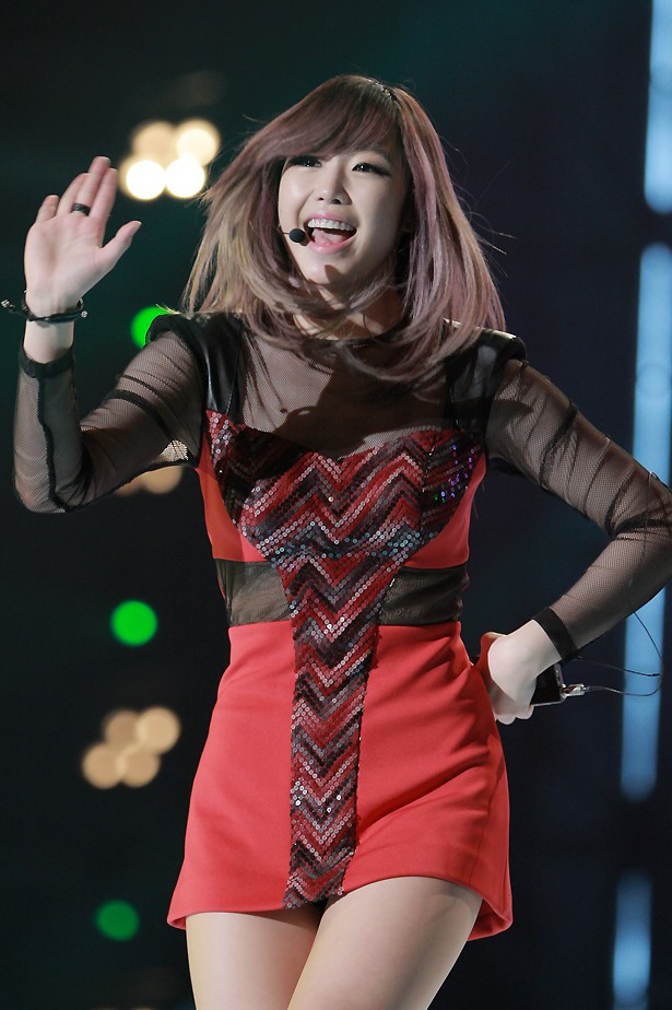 Jeon Hyosung at K Collection in Seoul on 9 March 2012.